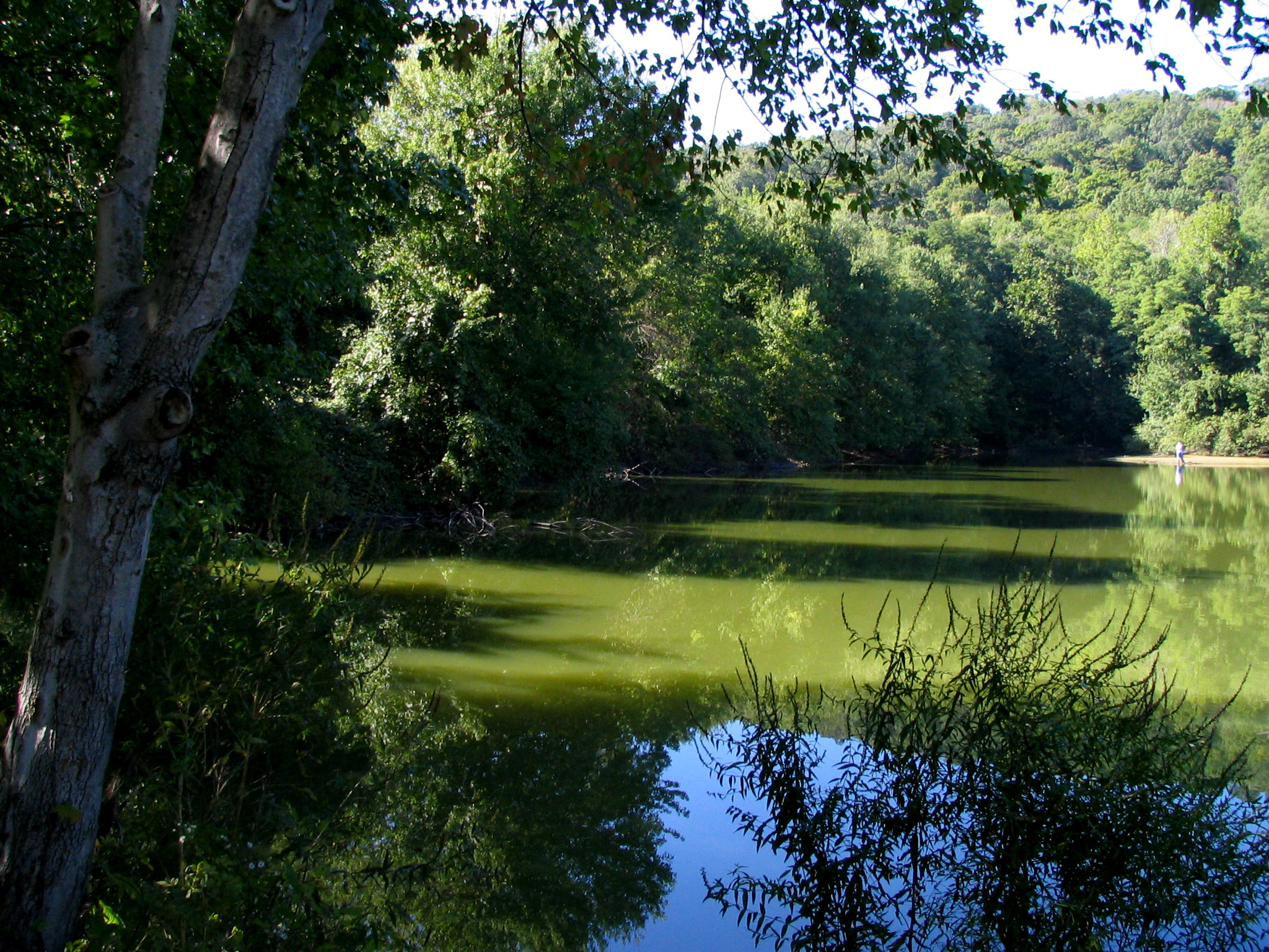 Scarlet Oak Pond at the Ramapo Reservation. Taken by User:Mwanner, 2 October, 2005.